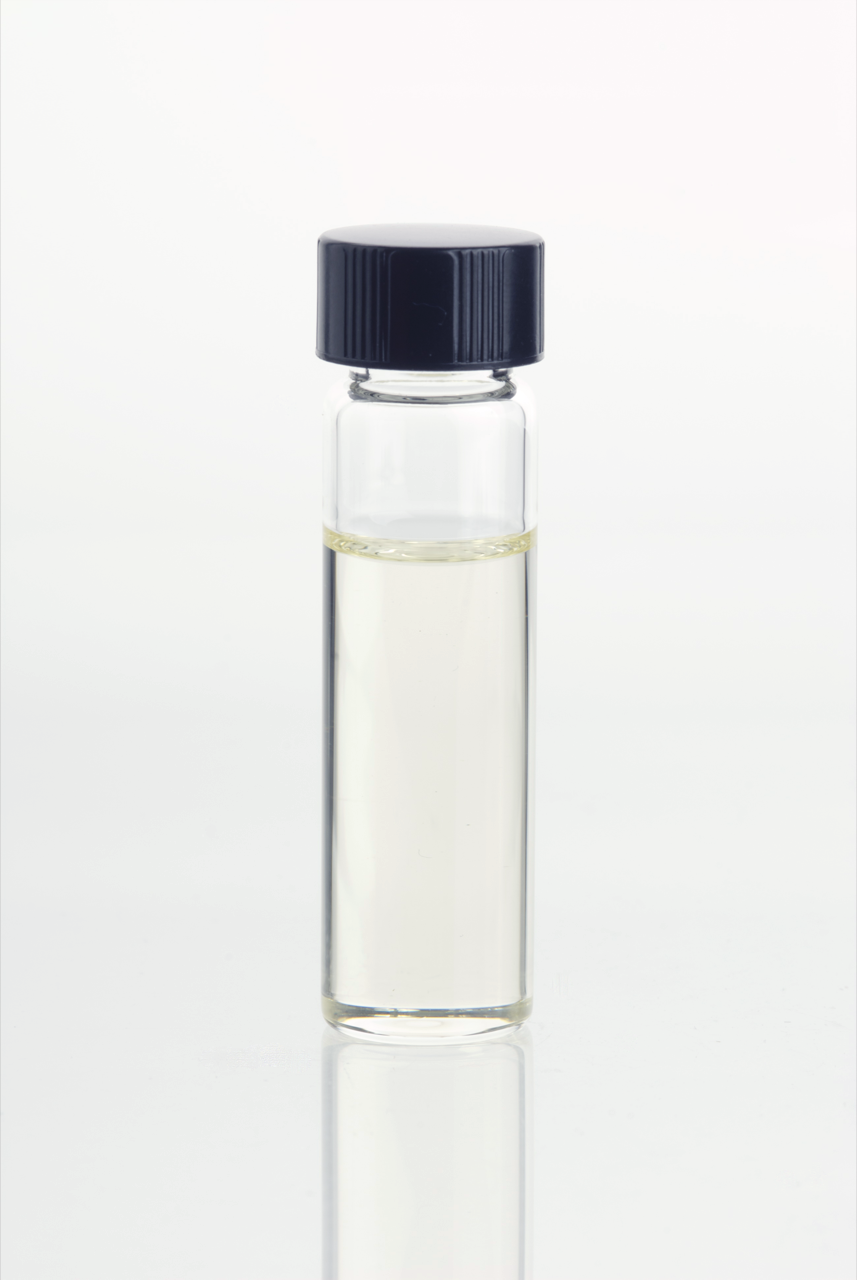 Glass vial containing Marjoram Essential Oil